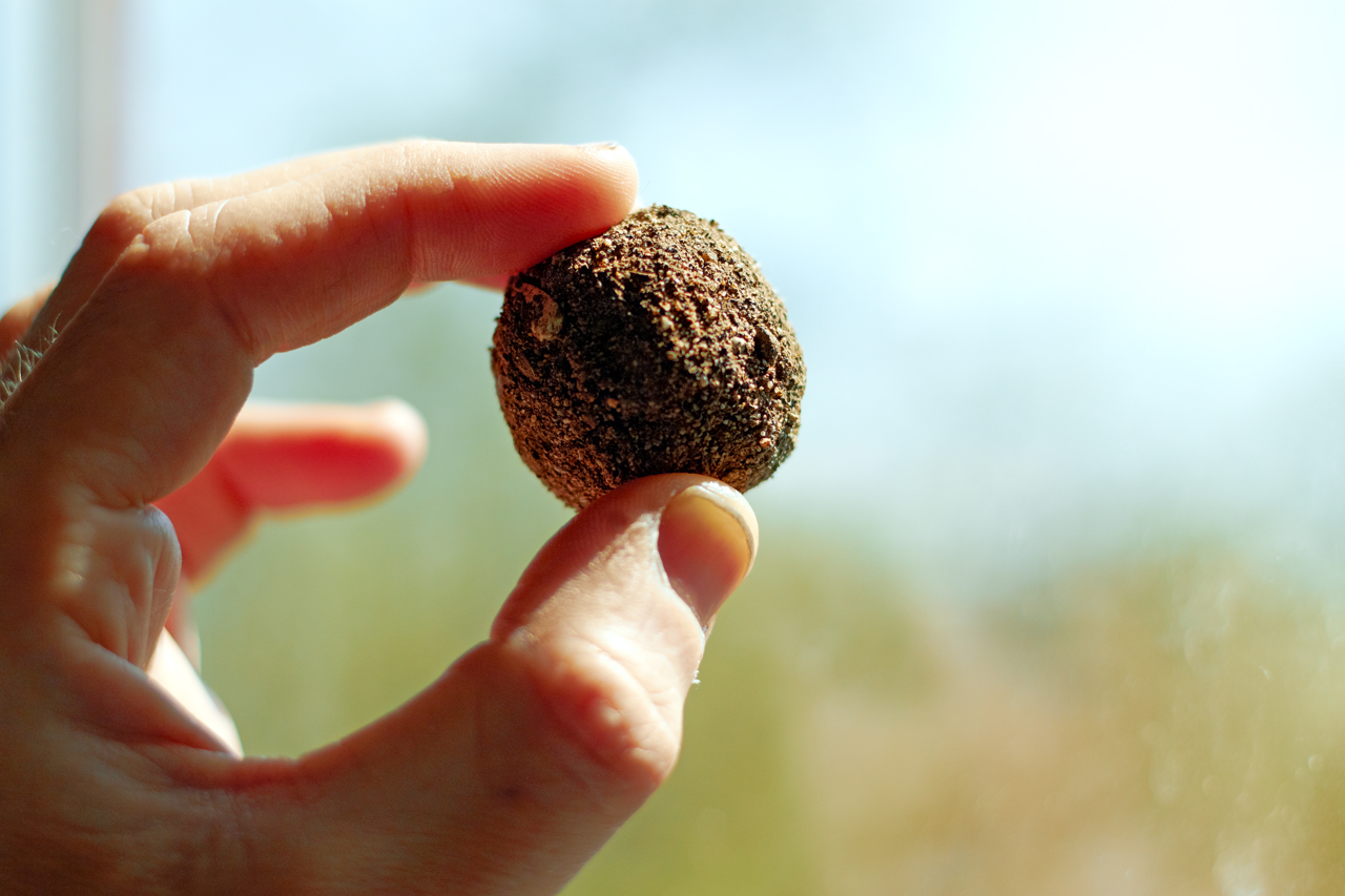 Seed bomb also known as Seed ball, used for Guerilla gardening